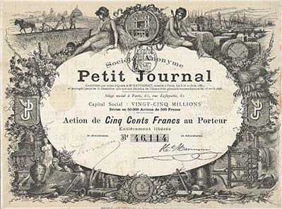 Certificate of Le Petit Journal Action de 500 Francs.